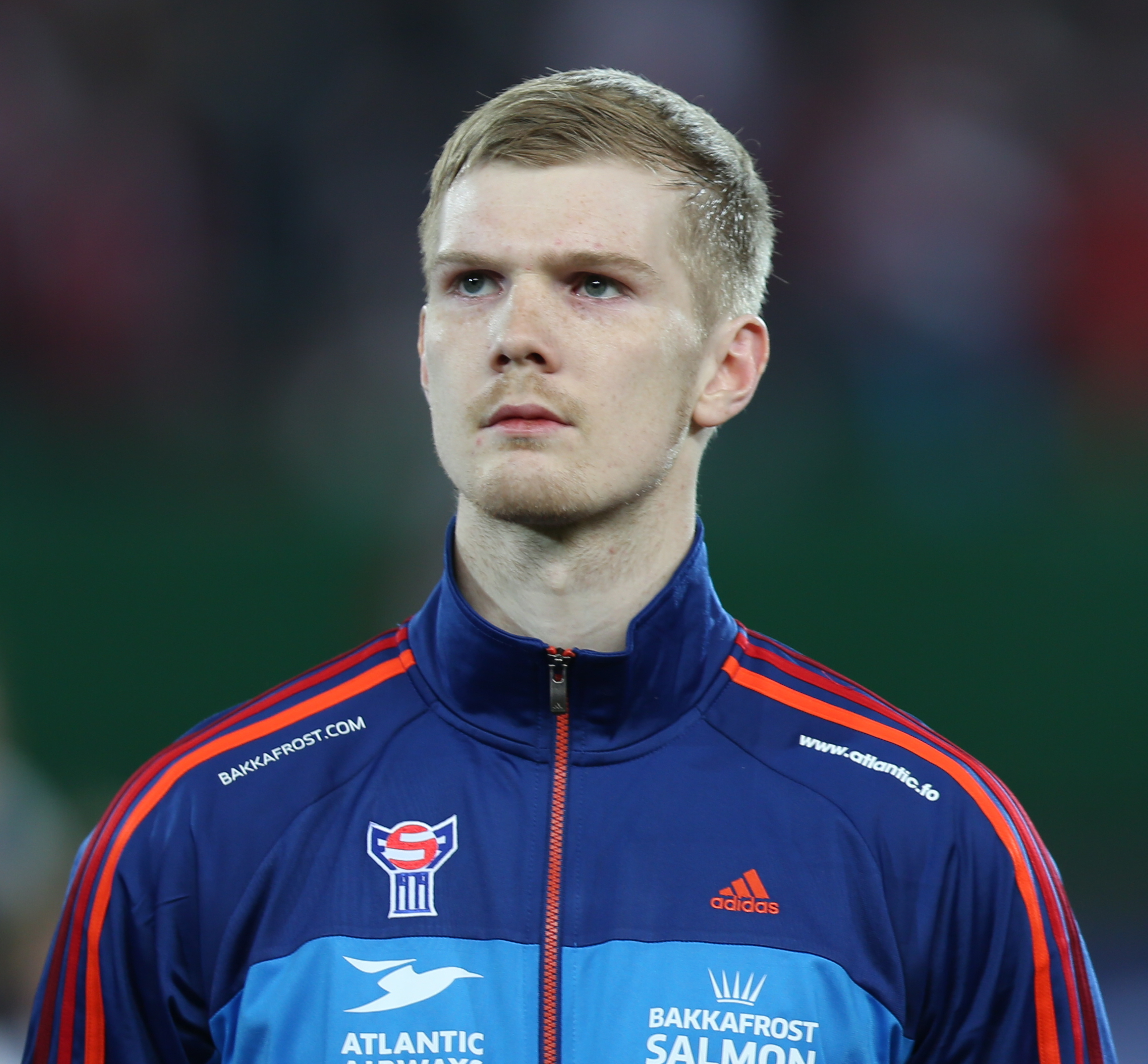 2014 FIFA World Cup qualification (UEFA), Group C: Austrian national football team vs. Faroer Islands national football team (6:0) at 22. March 2013 in the Ernst-Happel-Stadion in Vienna. Here: Odmar Færø, defender of the Faroe Islands.